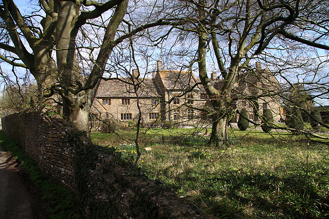 West Hall This large grade I listed house lies off a public footpath between the hamlet of Folke, and the village of Longburton. Normally obscured behind these trees when fully foliated, at this time of year it is briefly (but still only partially) revealed. It probably has its origins in the C15, when it may have been built for the Hymerford family. Later additions can be dated with more certainty during the early C17, and later in 1671 for Thomas Chafe, with most of the mullioned windows dating from this time. The last major alteration occurred in the early C18 with the addition of another wing.